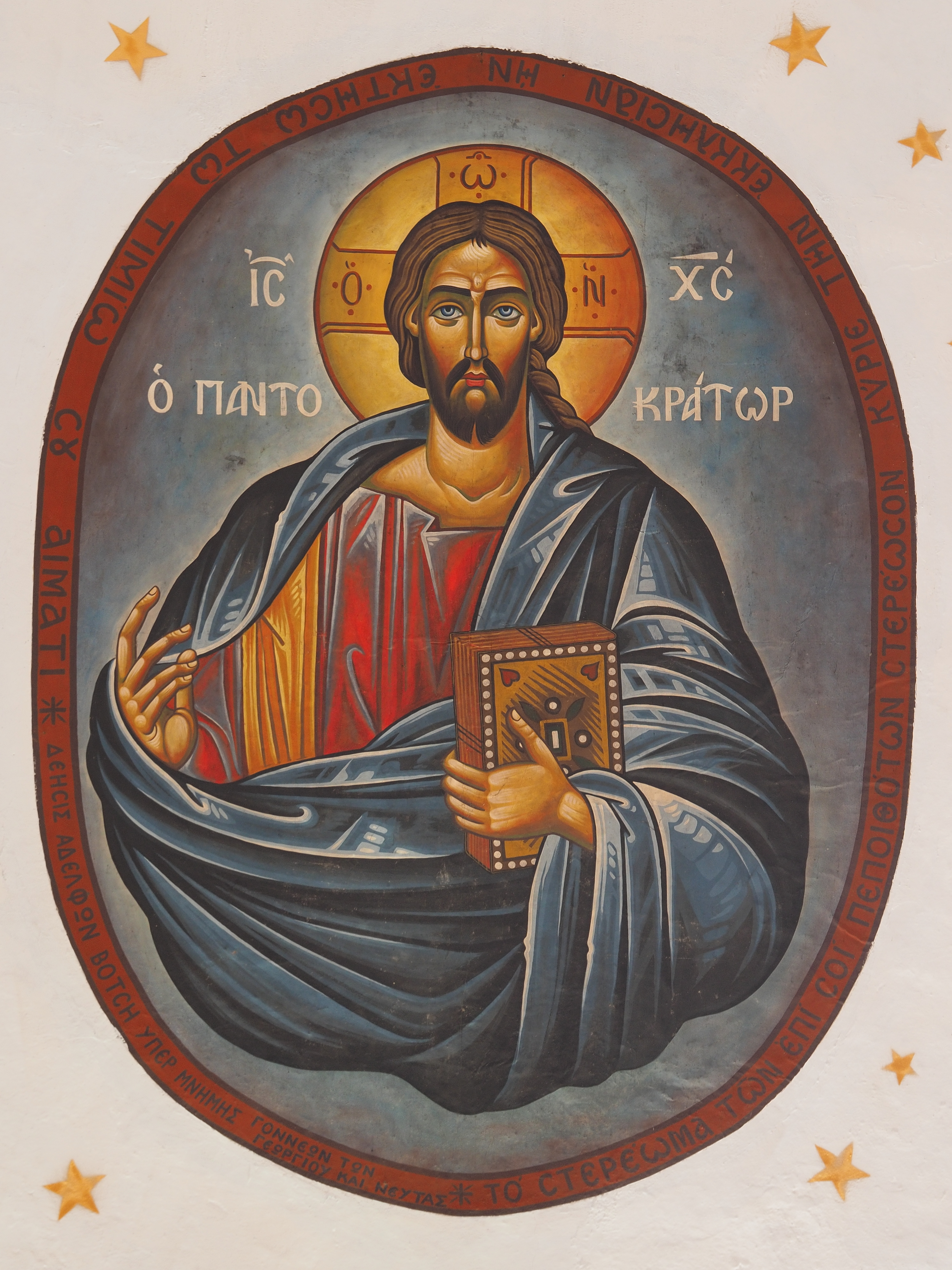 Pantokrator (Agios Nikolaos church, village Skopos, Greece). Roof fresco. Српски (ћирилица): Христос Пантократор, фреска на крову цркве Агиос Николајос, Скопос (Флорина), Грчка This photograph was taken with a Olympus E-M1.